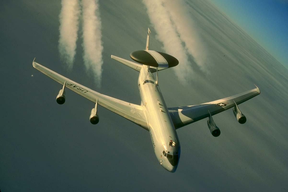 The E-3 Sentry is a modified Boeing 707/320 commercial airframe with a rotating radar dome. The dome is 30 feet in diameter, 6 feet thick and is held 11 feet above the fuselage by two struts. It contains a radar subsystem that permits surveillance from the Earth's surface up into the stratosphere, over land or water. The radar has a range of more than 200 miles for low-flying targets and farther for aerospace vehicles flying at medium to high altitudes.